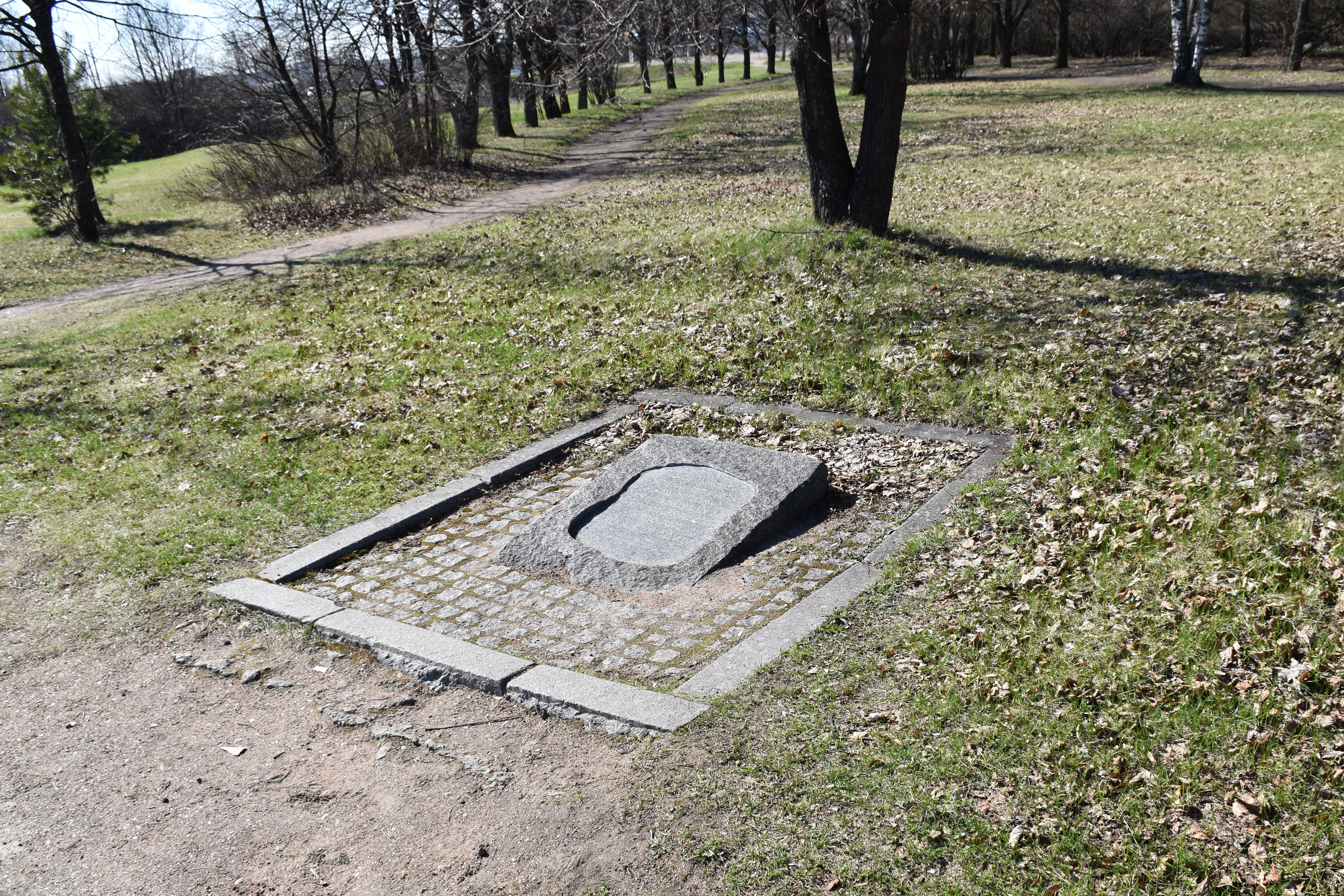 Grave of Russian soldiers who died during the storming of Vyborg in 1710.